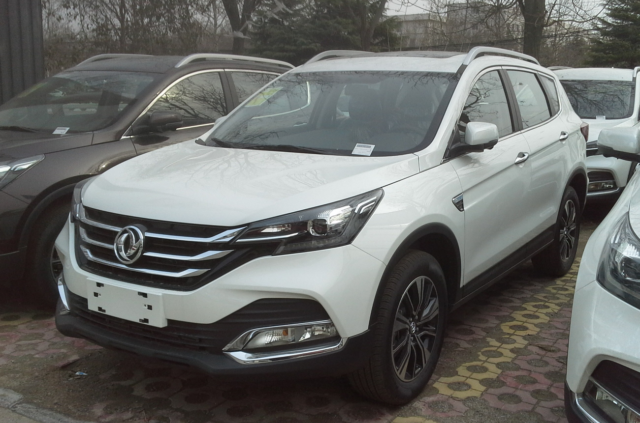 Dongfeng Aeolus AX7 photographed in Zhengzhou, Henan province, China.